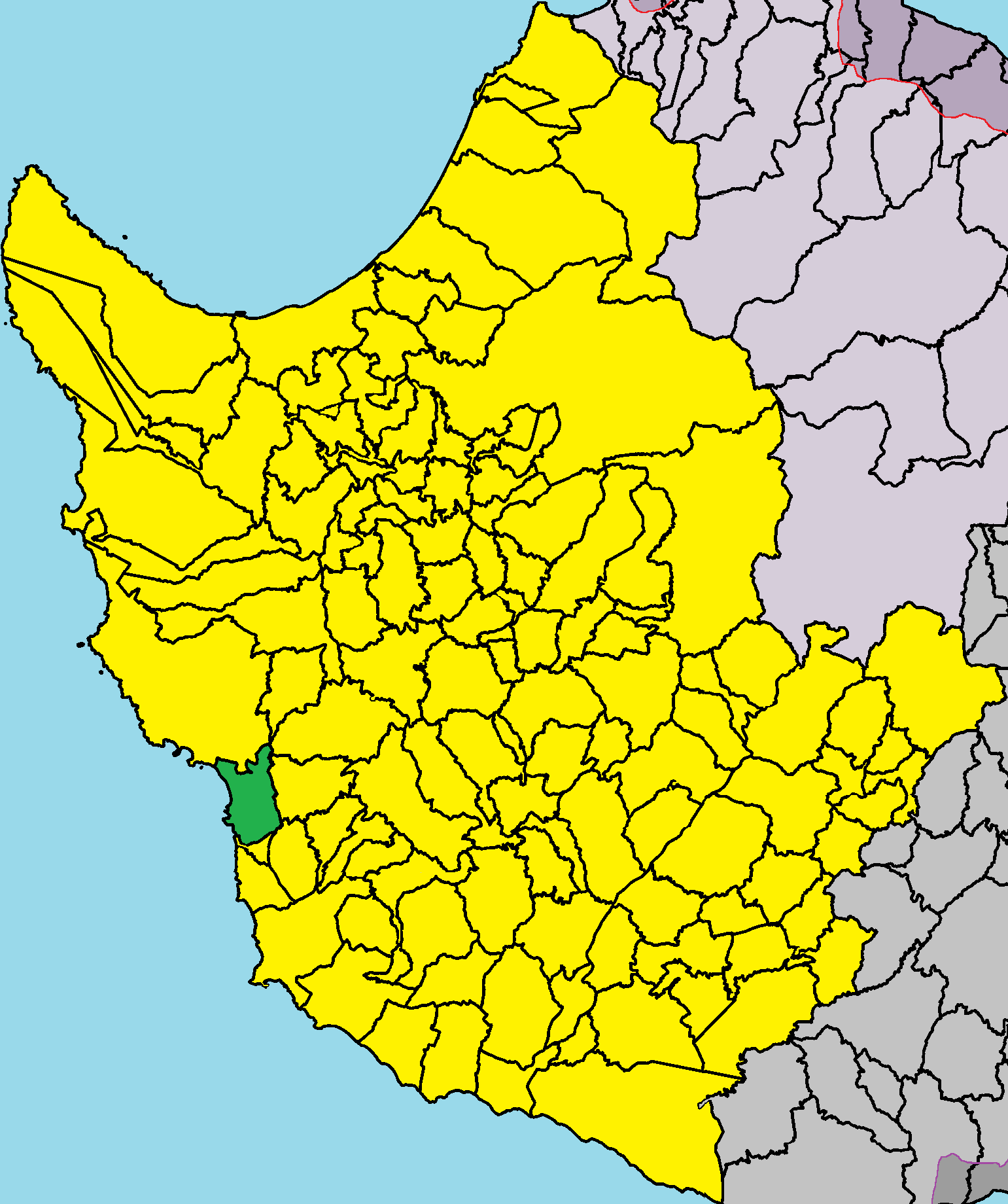 Kissonerga in Paphos District.